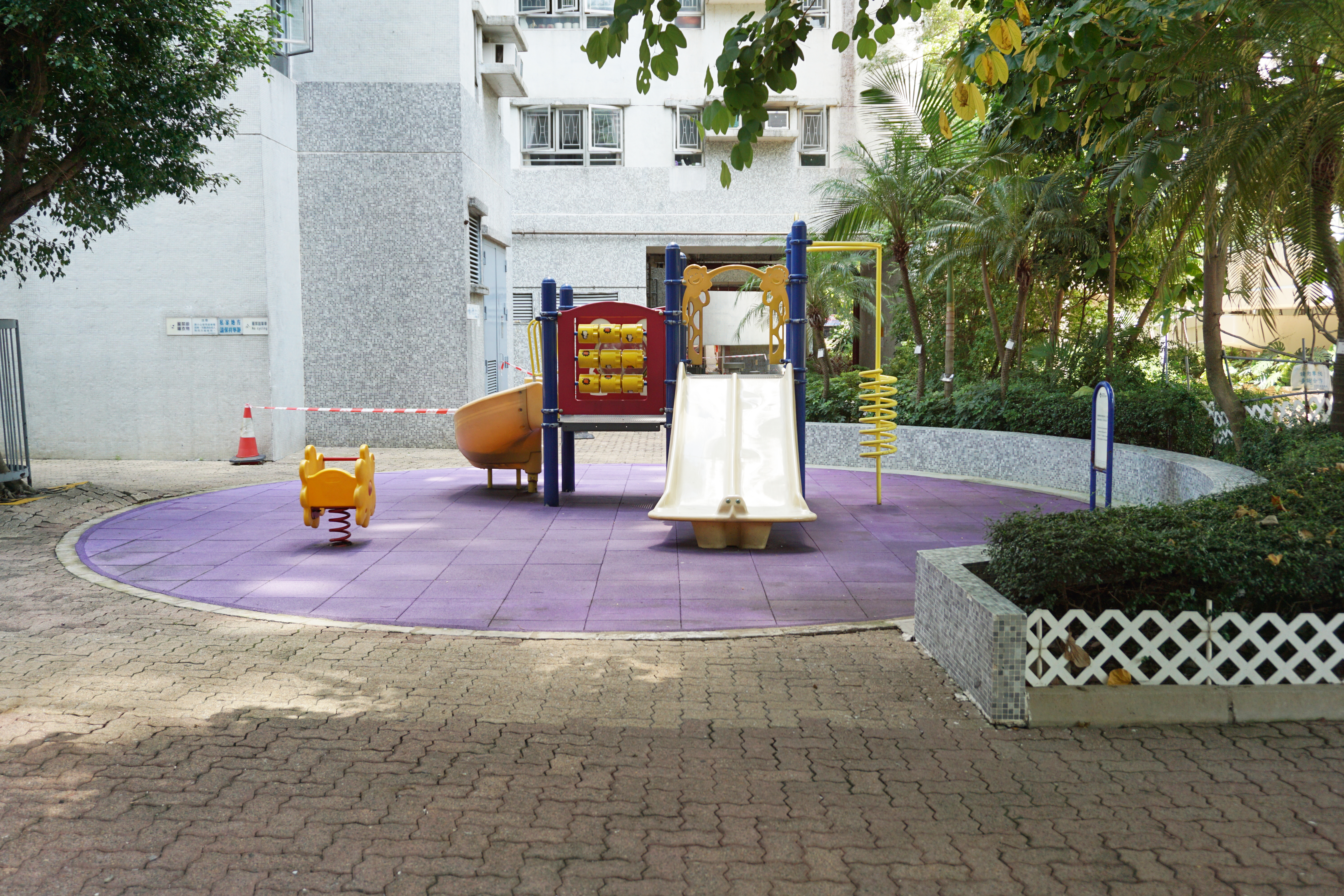 Serene Garden in Tsing Yi, Hong Kong.